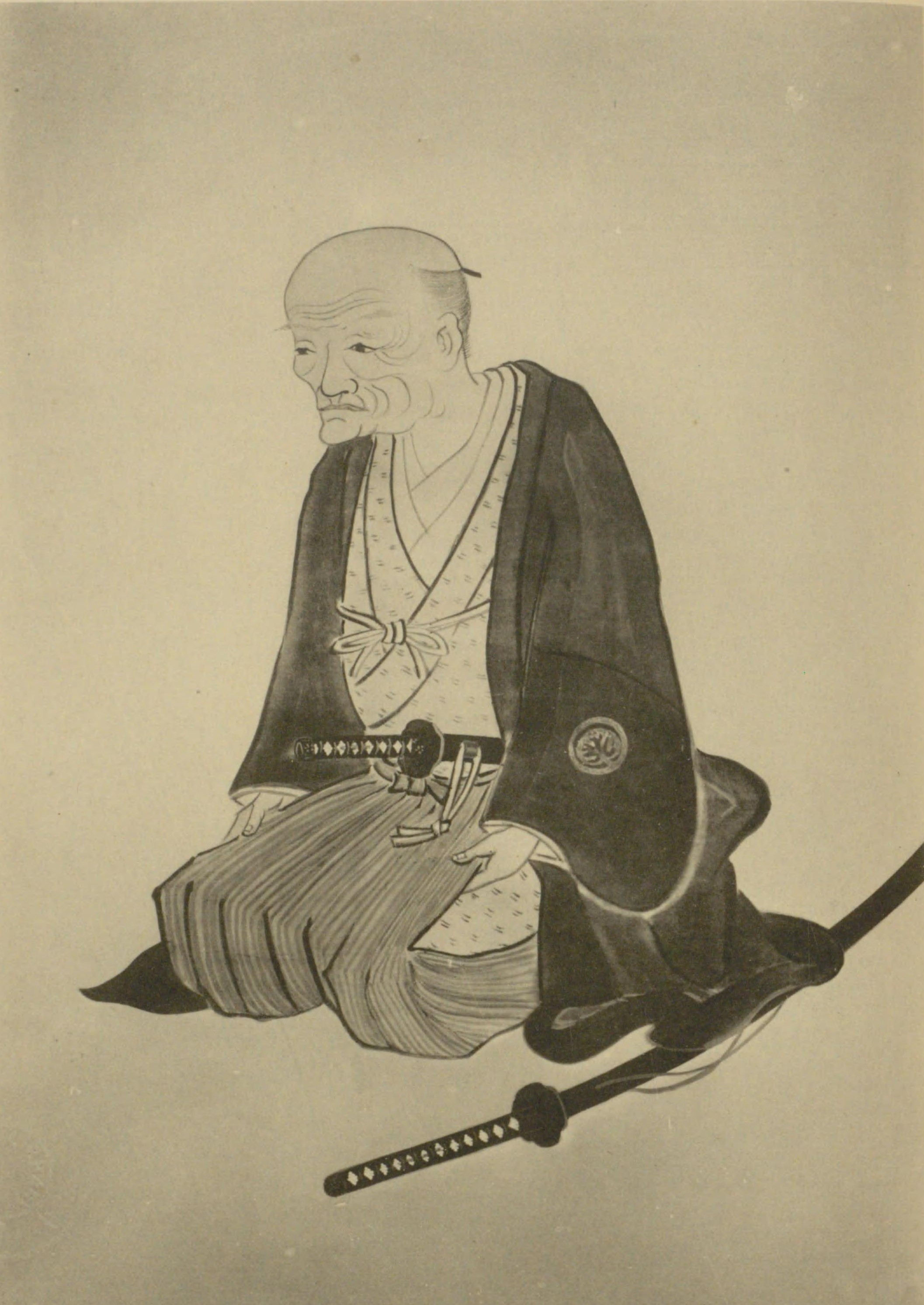 Portrait of Matsudaira Kunzan